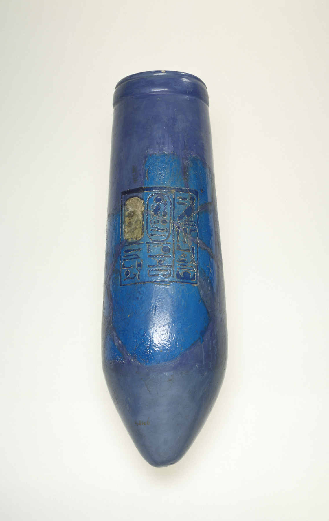 Situlae were vessels used to pour offerings of milk or water in purification rituals. They take the form of a human breast and were associated with the goddess Isis. Situlae were found in temple treasuries at Amarna, the city built by the pharaoh Akhenaten to honor Aten, the sun-disk deity. This vessel continued to be used after the demise of Akhenaten and the king's birth name has been erased. It has a central field containing three columns of inscription executed in dark blue glaze.